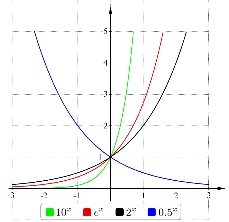 Exponential grafs